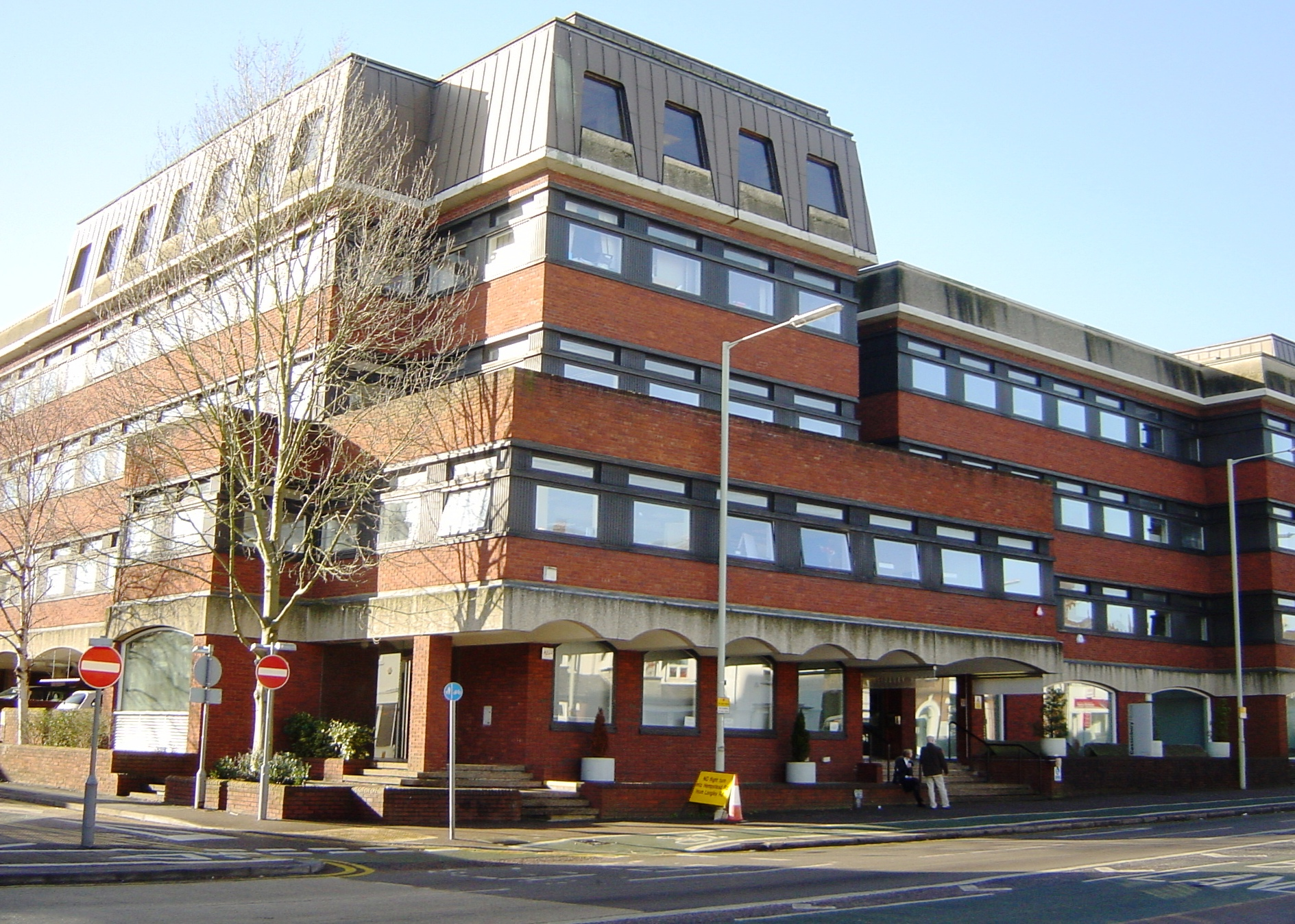 Watford County Court is located on the third and fourth floor of Cassiobury House, Watford (just across the road from Watford Junction station)